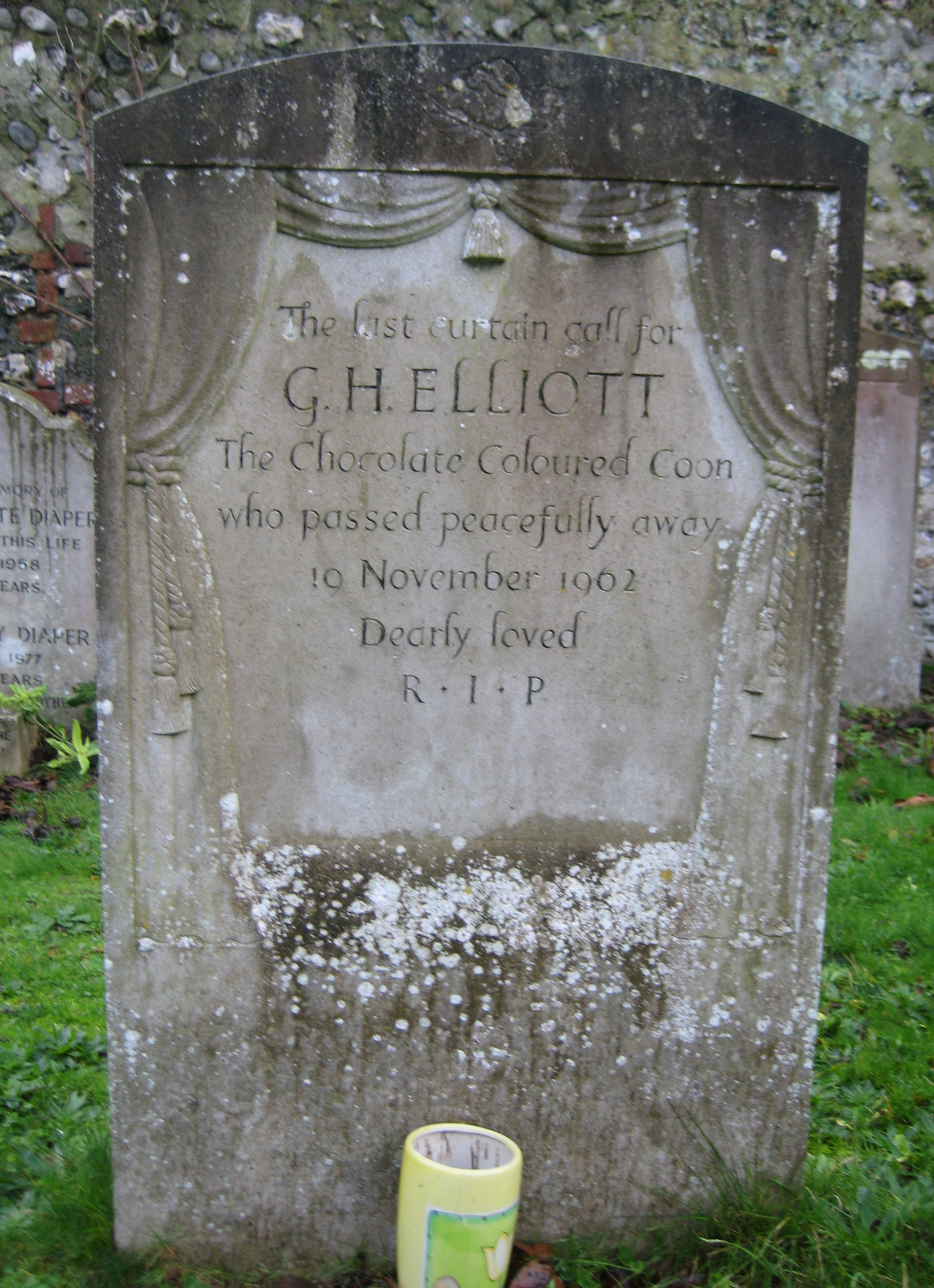 G H Elliott's headstone in St. Margaret's Church graveyard, Rottingdean